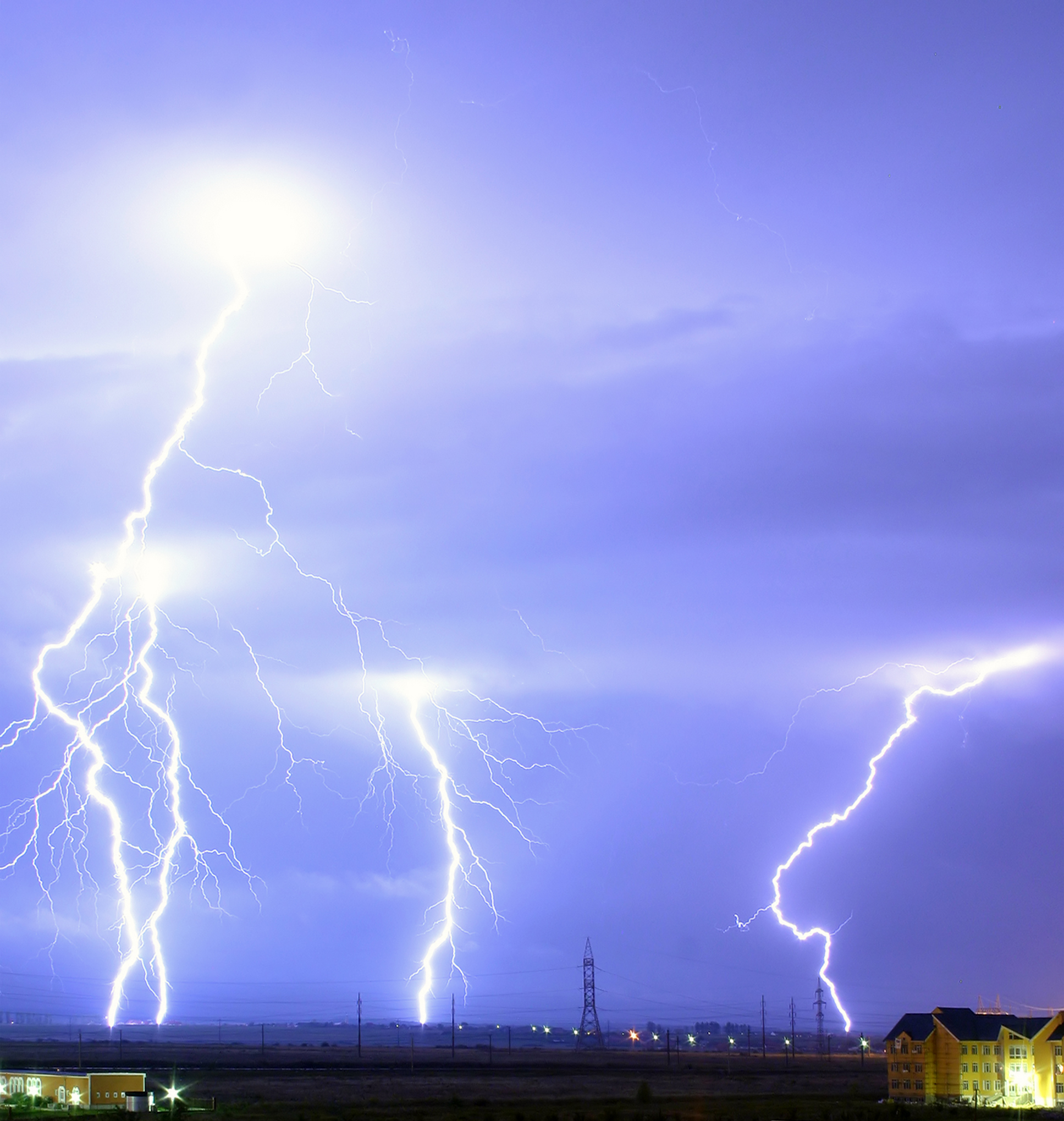 Lightning over the outskirts of Oradea, Romania, during the August 17, 2005 thunderstorm which went on to cause major flash floods over southern Romania.